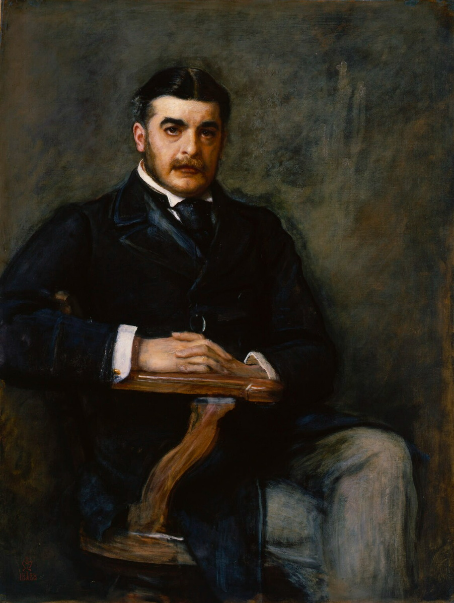 Portrait of Arthur Sullivan painted by John Everett Millais (d. 1896) in the 1880s.